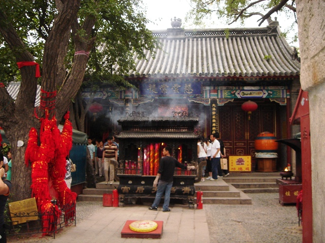 Tianhou Temple, Qingdao